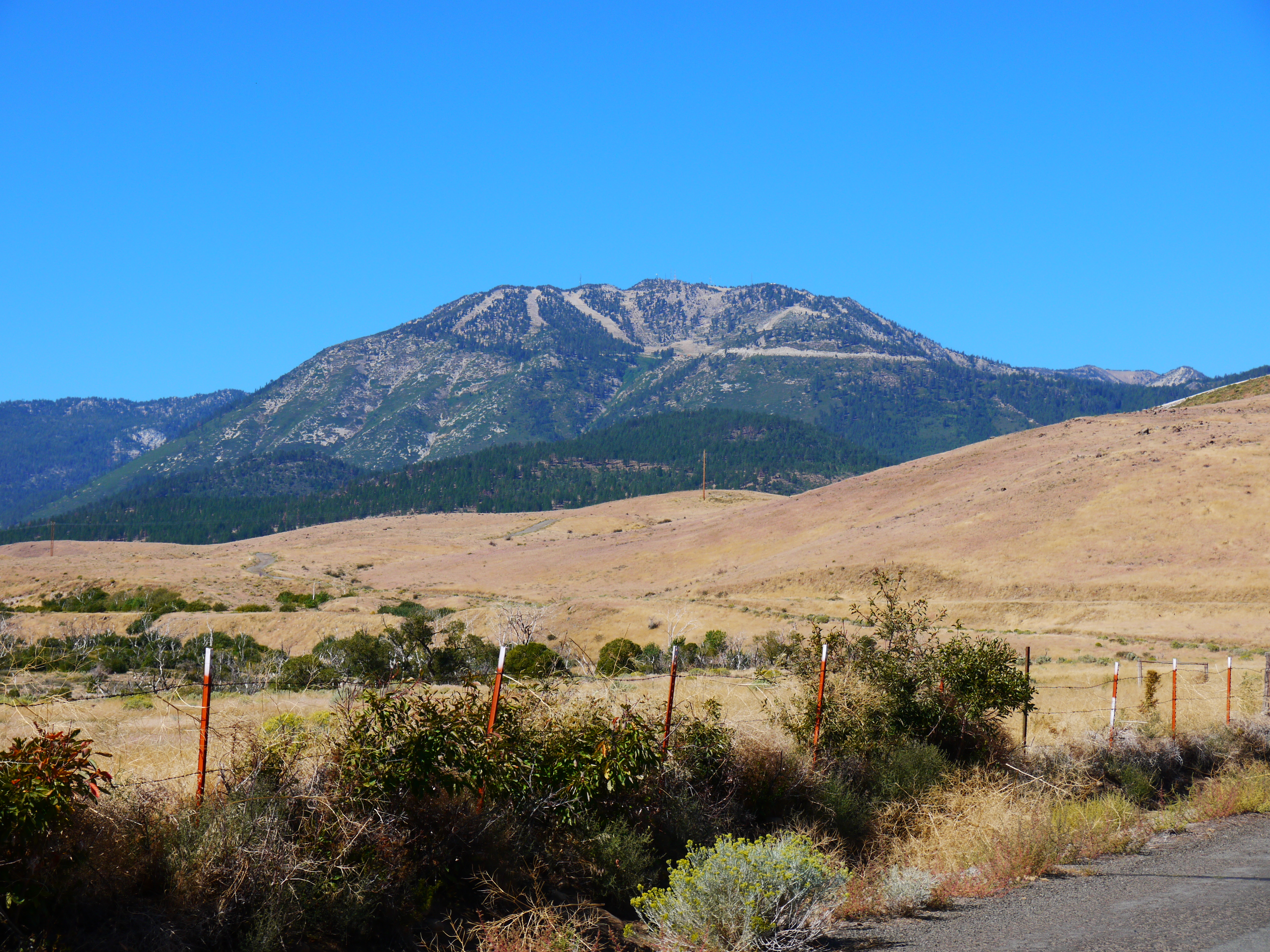 Mount Rose Ski Resort Slide Bowl and Lodge (DETAIL)